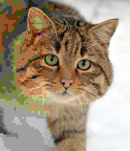 Gradual JPEG artifacts example, with decreasing quality from right to left